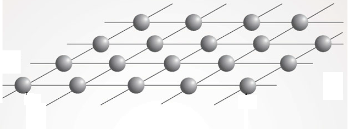 Lattice network in two dimensions